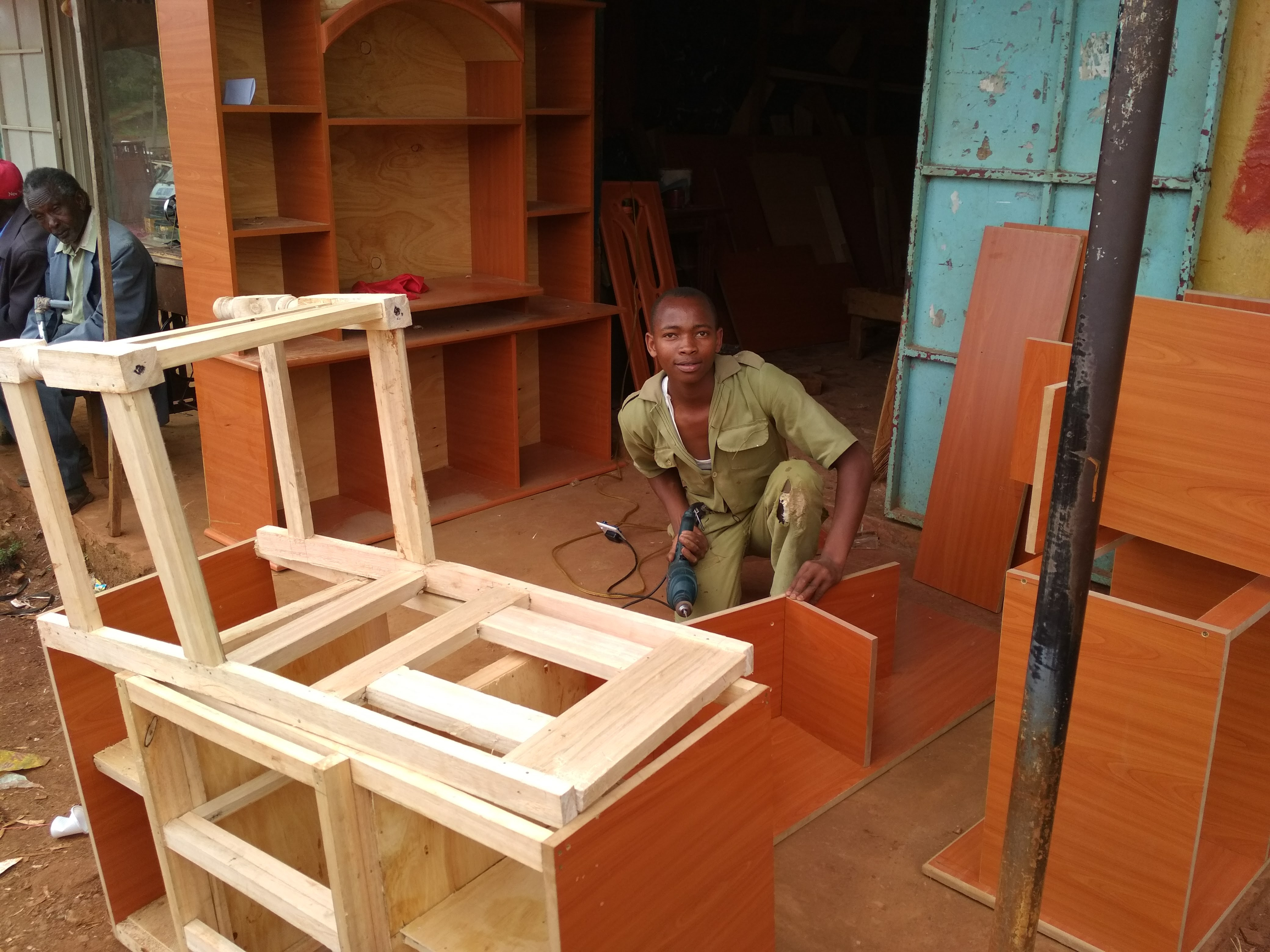 More young people in Kenya are acquiring technical skills.This gives them job opportunities that raise their economic status as they get to earn a good pay. This is an image of "African people at work" from Kenya